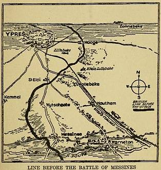 Front line before Battle of Messines 7–14 June 1917.